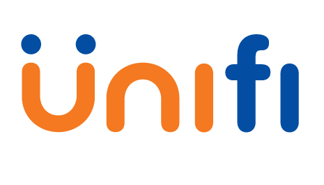 Unifi Logo as per 2015